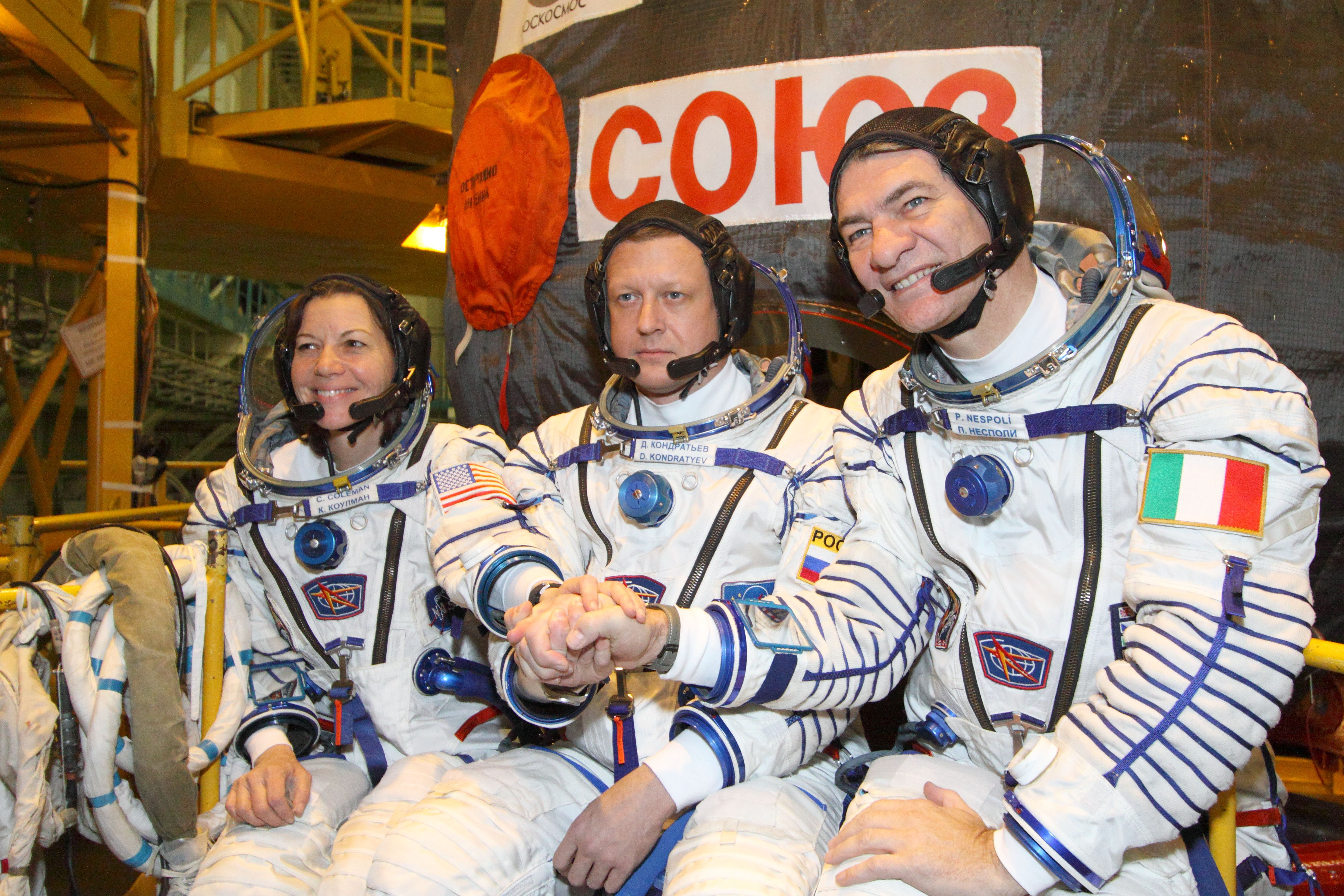 At the Baikonur Cosmodrome in Kazakhstan, NASA astronaut Catherine (Cady) Coleman (from left), Expedition 26 flight engineer, Soyuz commander Dmitry Kondratyev of Russia's Federal Space Agency, and European Space Agency astronaut Paolo Nespoli, flight engineer, pose for pictures Dec. 4, 2010 outside their Soyuz TMA-20 spacecraft during a fit check exercise. The trio will launch in the Soyuz Dec. 16 (Kazakhstan time) to the International Space Station.